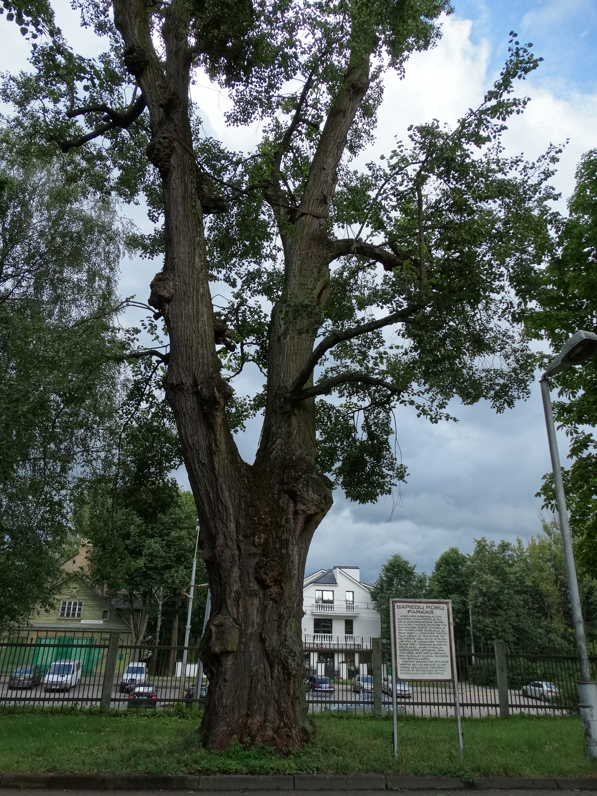 Lime tree by Sapieha Palace in Antakalnis, Vilnius, Lithuania